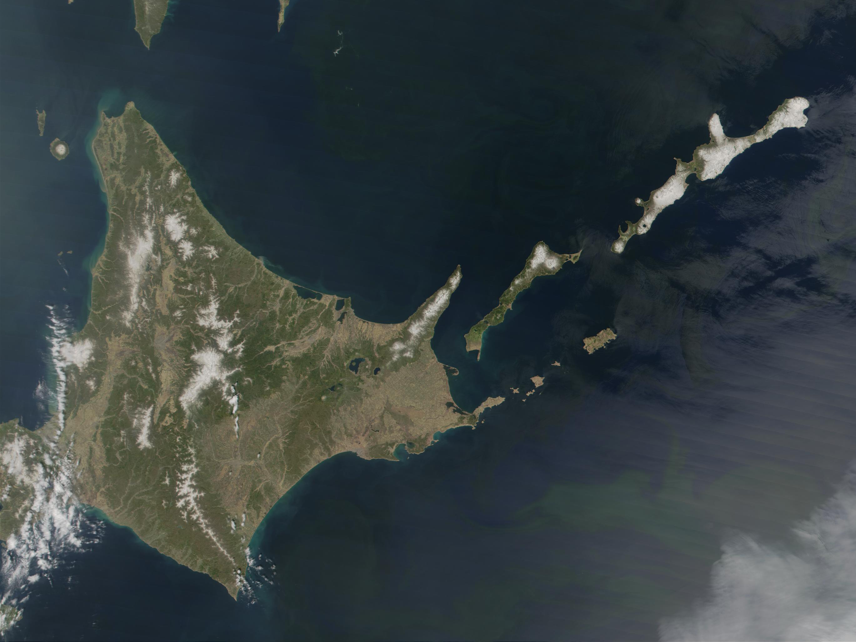 Satellite photo of Hokkaido and the southern Kuril islands. Habomai Islands, Shikotan, Kunashiri (Kunashir) and Etorofu (Iturup). It is claimed by Japan as the Northern territories.